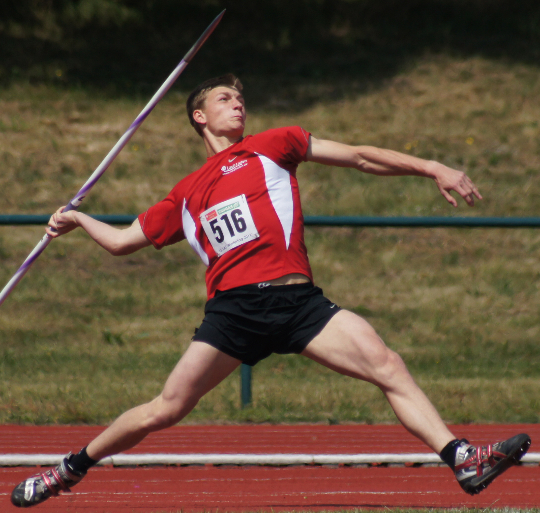 Thomas Röhler throwing the javelin at Leipzig(GER) Werfertag 2011.